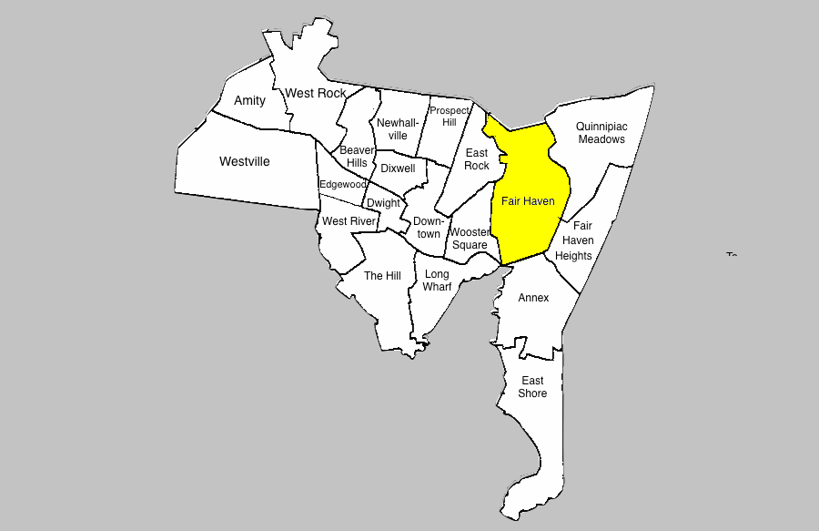 location of Fair Haven neighborhood within New Haven, Connecticut